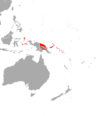 Temminck's Trident Bat (Aselliscus tricuspidatus) range